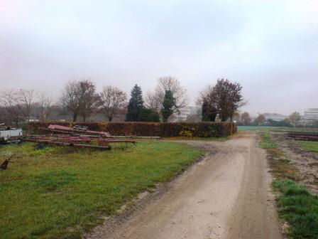 Mennonite cemetery, Limburgerhof-Kohlhof, Rheinland-Pfalz, Deutschland / Germany